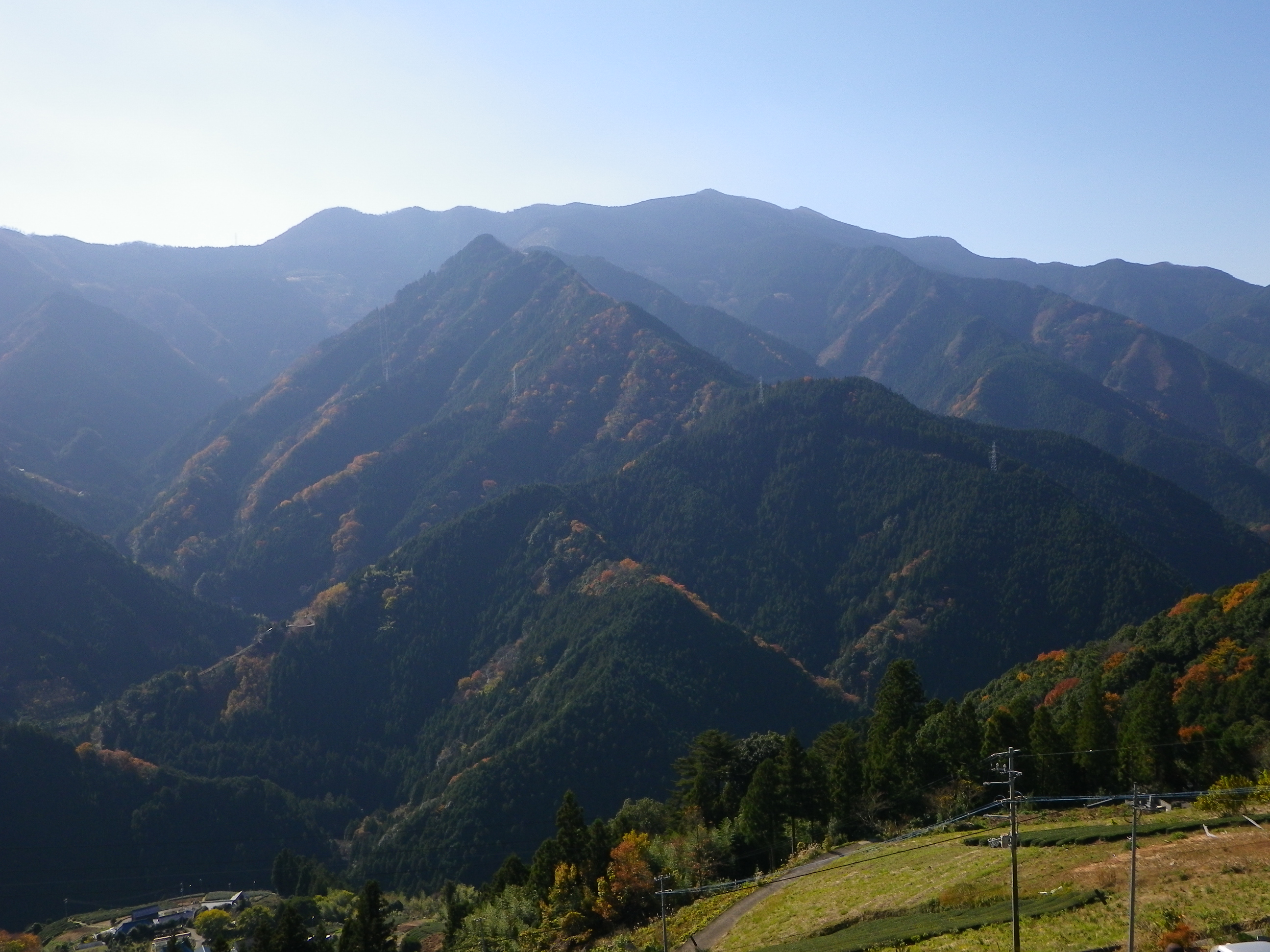 Mount Nokanoike (Nokanoike-yama) as seen from the NNE.